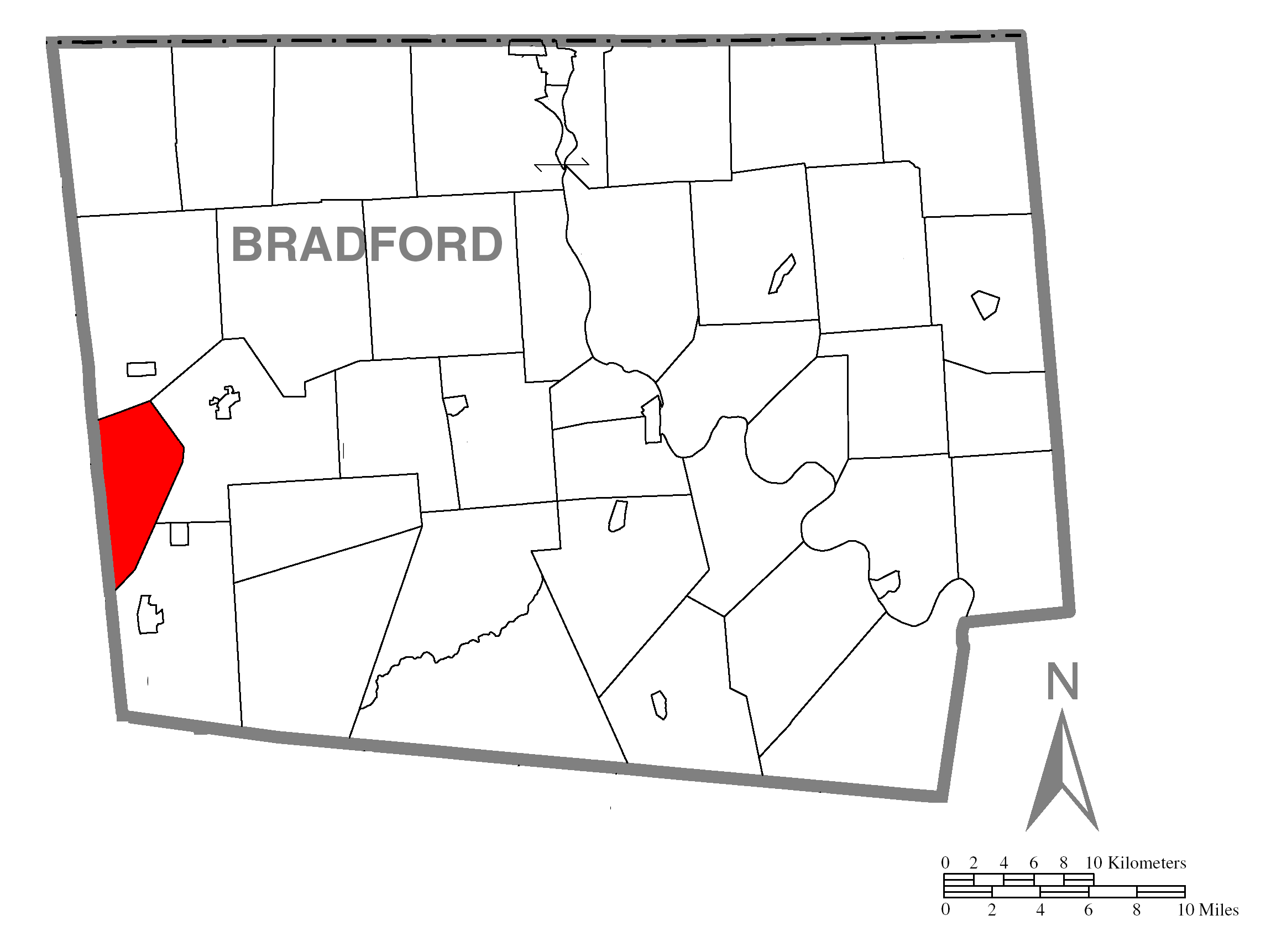 A map of Bradford County showing Armenia Township, Pennsylvania (alternate) highlighted on the map.